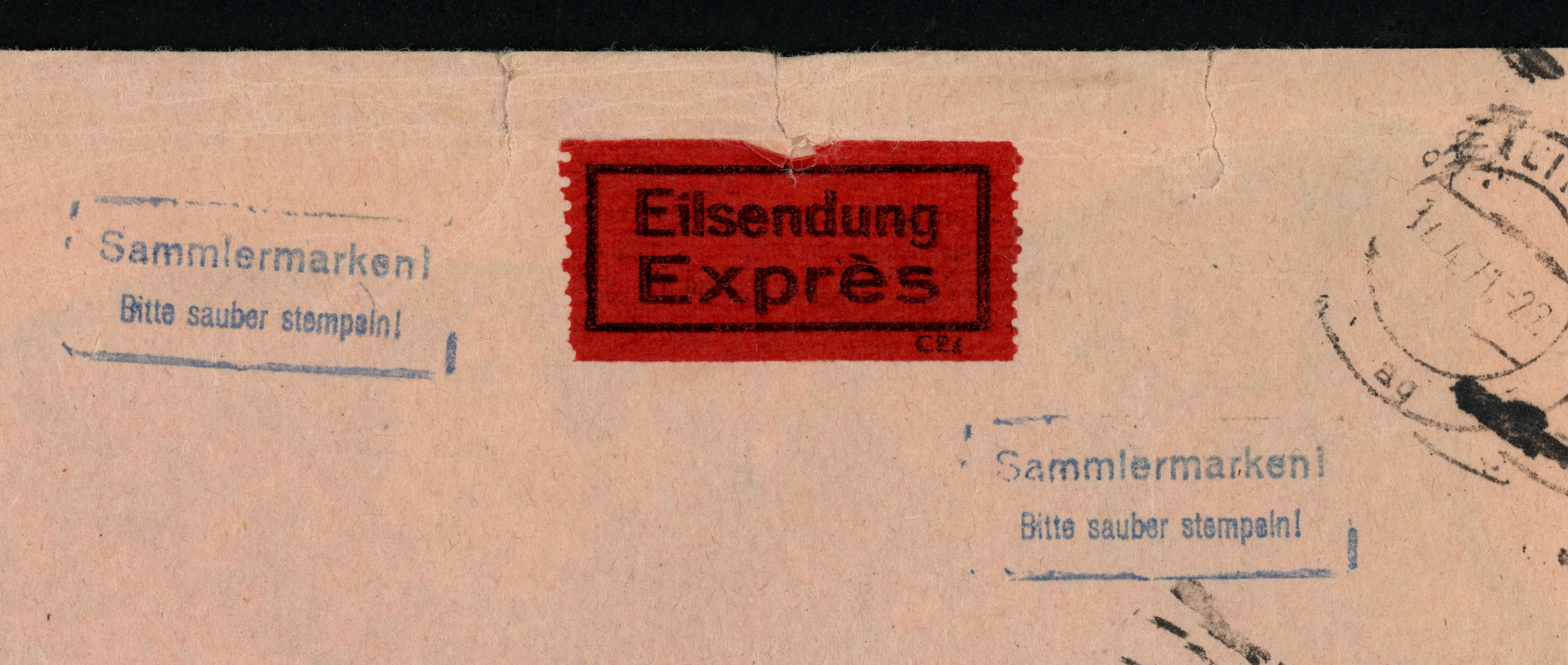 part DDR express mail envelope with rubber collector's stamp (twice) requesting a clean cancellation but the request was not observed. Date stamp: June 4, 1971